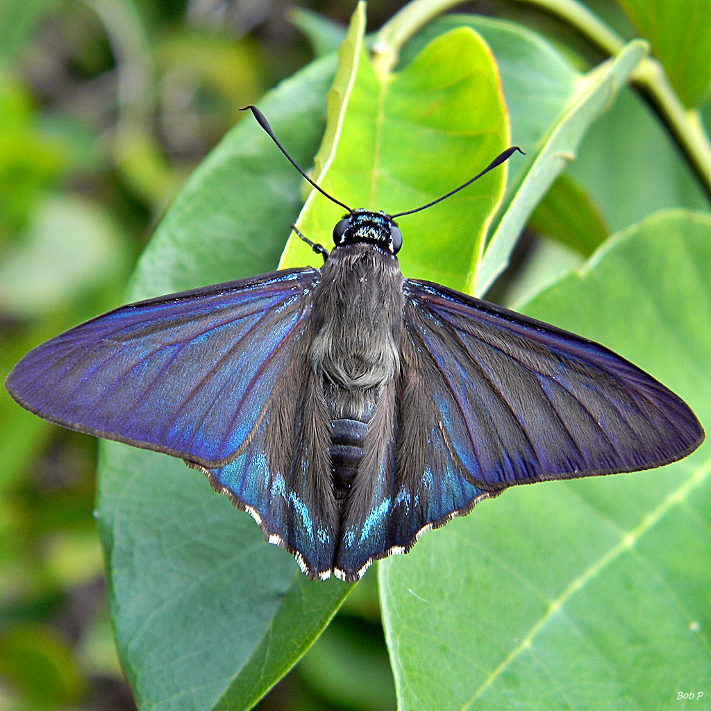 A friendly mangrove skipper perched near the observation platform that overlooks the little mangrove swamp at Frenchman's Forest Natural Area in Palm Beach Gardens, Florida. The Red Mangrove is their larval host plant. The royal blue highlights vary in intensity with the angle of illumination. I have never seen a caterpillar but they are quite stunning as well.